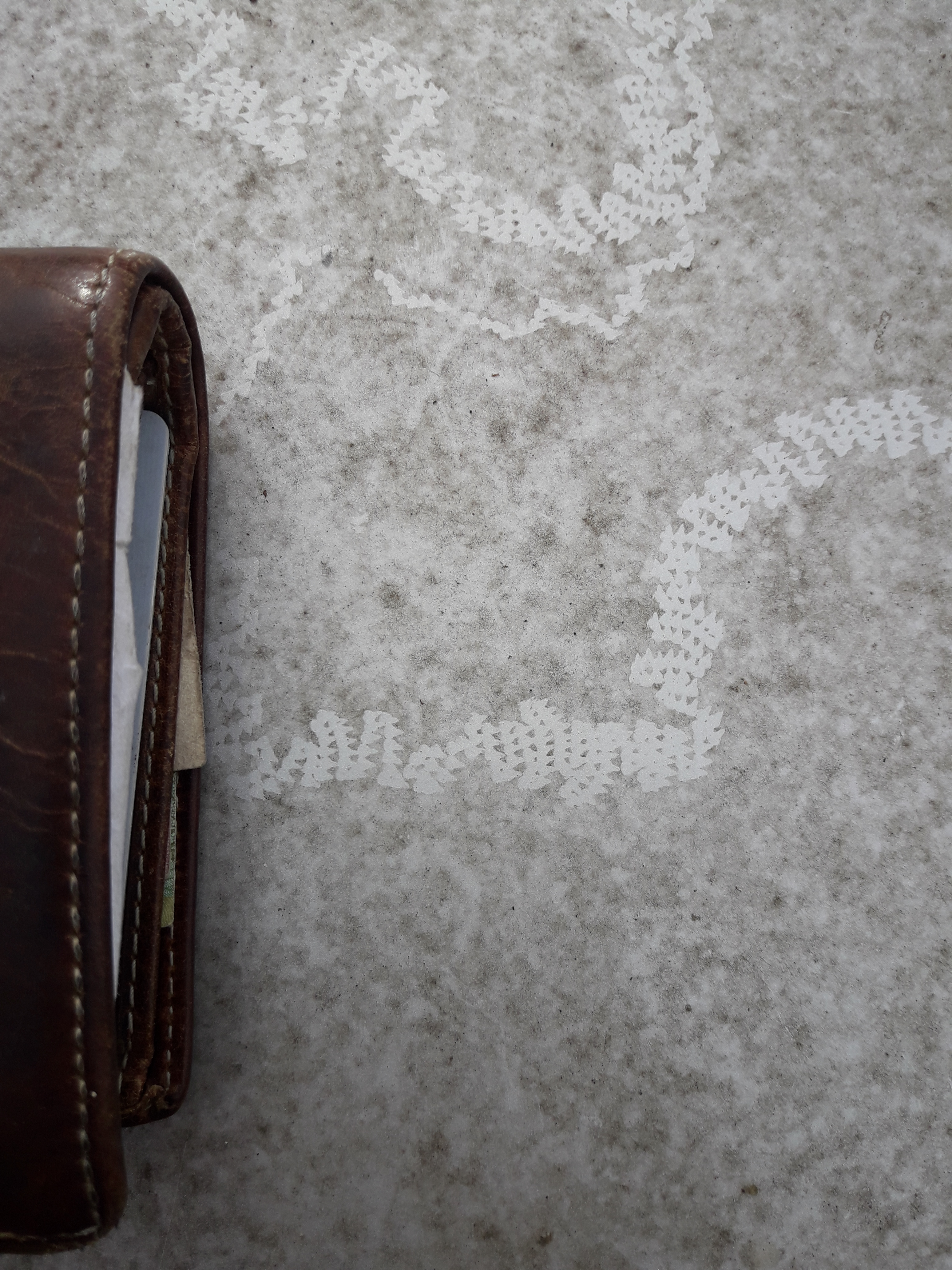 Traces left by a land snail on my car's bonnet. The scientific name of the trace is Radulichnus, and is produced by the animal while scraping the surface in the search of food, usually such as algae, fungi, etc. The wallet used as scale is 8 cm from left to right.